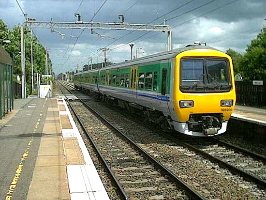 An electric multiple unit pulling into Tile Hill station on the West Coast Main Line in Coventry, England.